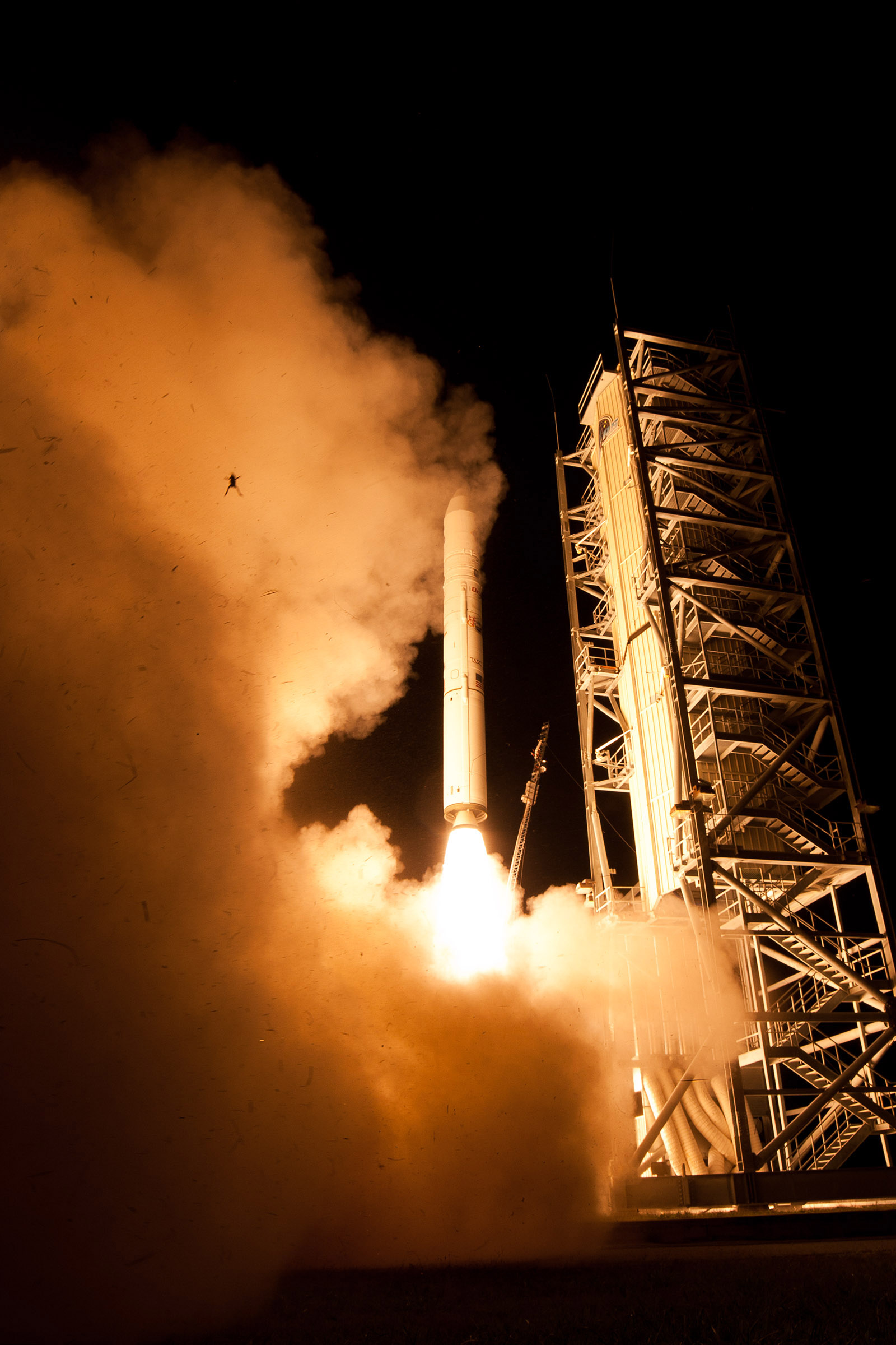 Frog propelled into the air by the Minotaur V LADEE launch on 6 September 2013. A still camera on a sound trigger captured this intriguing photograph of an airborne frog as NASA's LADEE spacecraft lifted off from Pad 0B at Wallops Flight Facility in Virginia. The photo team confirmed the frog was real and was captured in a single frame by one of the remote cameras used to photograph the launch. The condition of the frog, however, is uncertain.